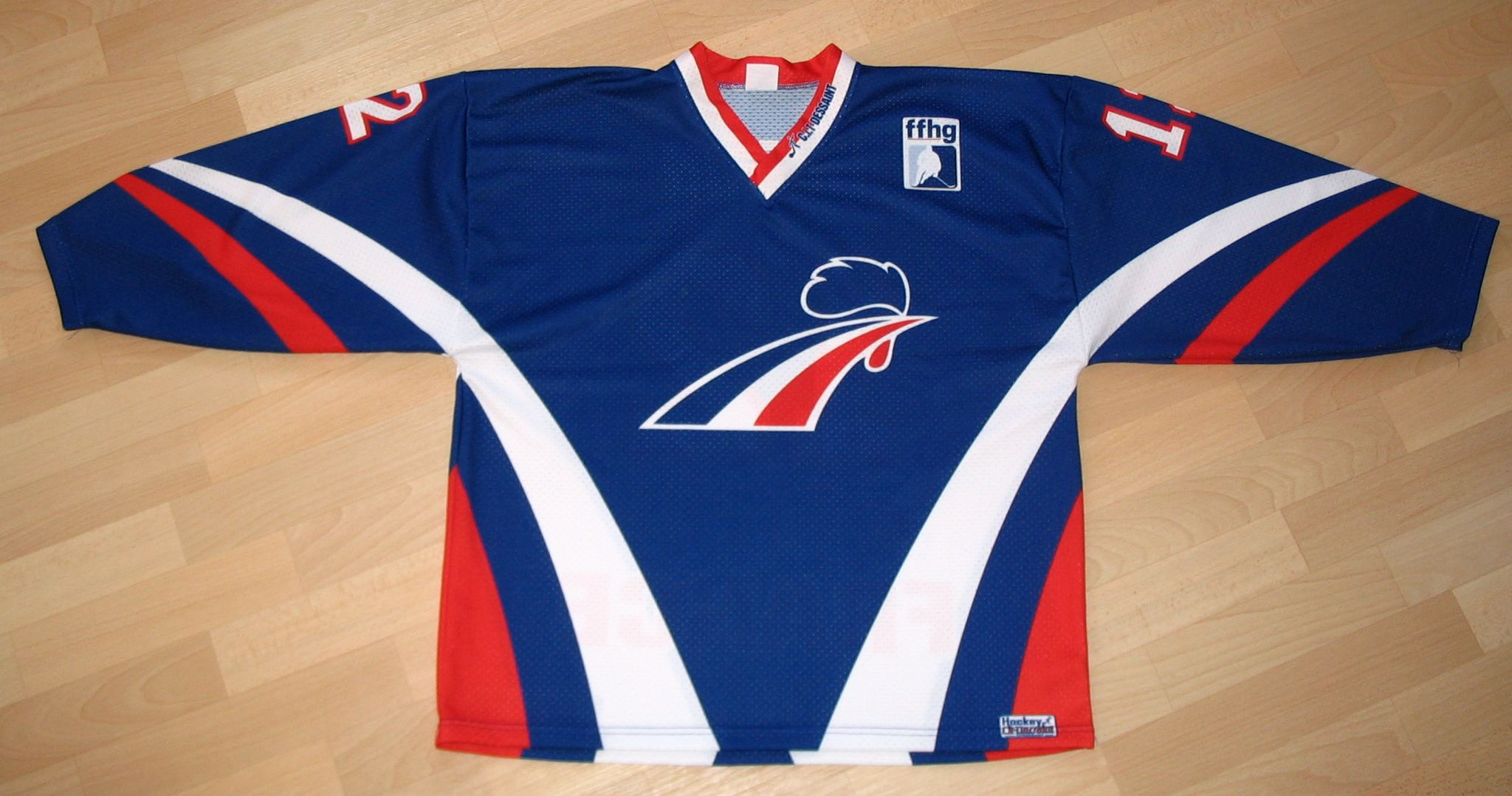 France national ice hockey jersey